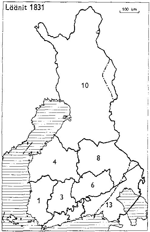 Finnish counties 1831 1 Turku and Pori, 2 Uusimaa, 3 Tavastia, 13 Viipuri, 6 Mikkeli, 8 Kuopio, 4 Vaasa, 10 Oulu